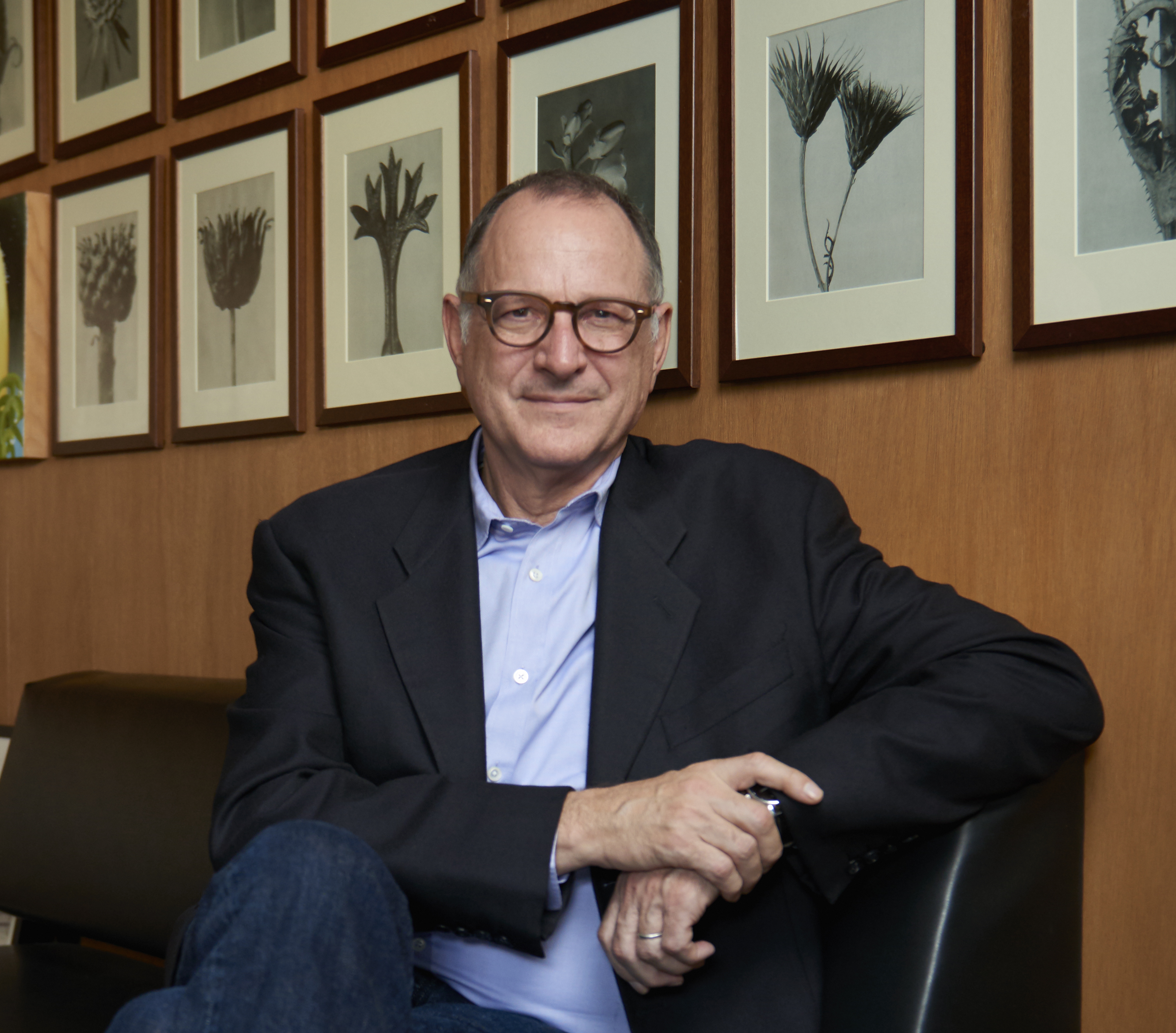 Frederick Fisher sitting in his office.